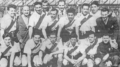 Deportivo Morón squad, champions in 1955.